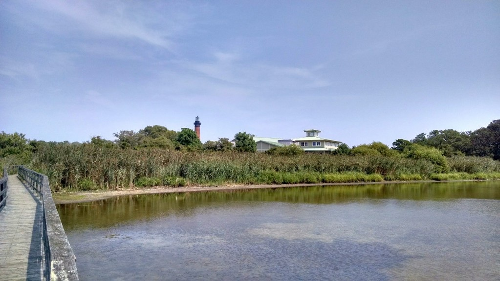 Corolla, NC